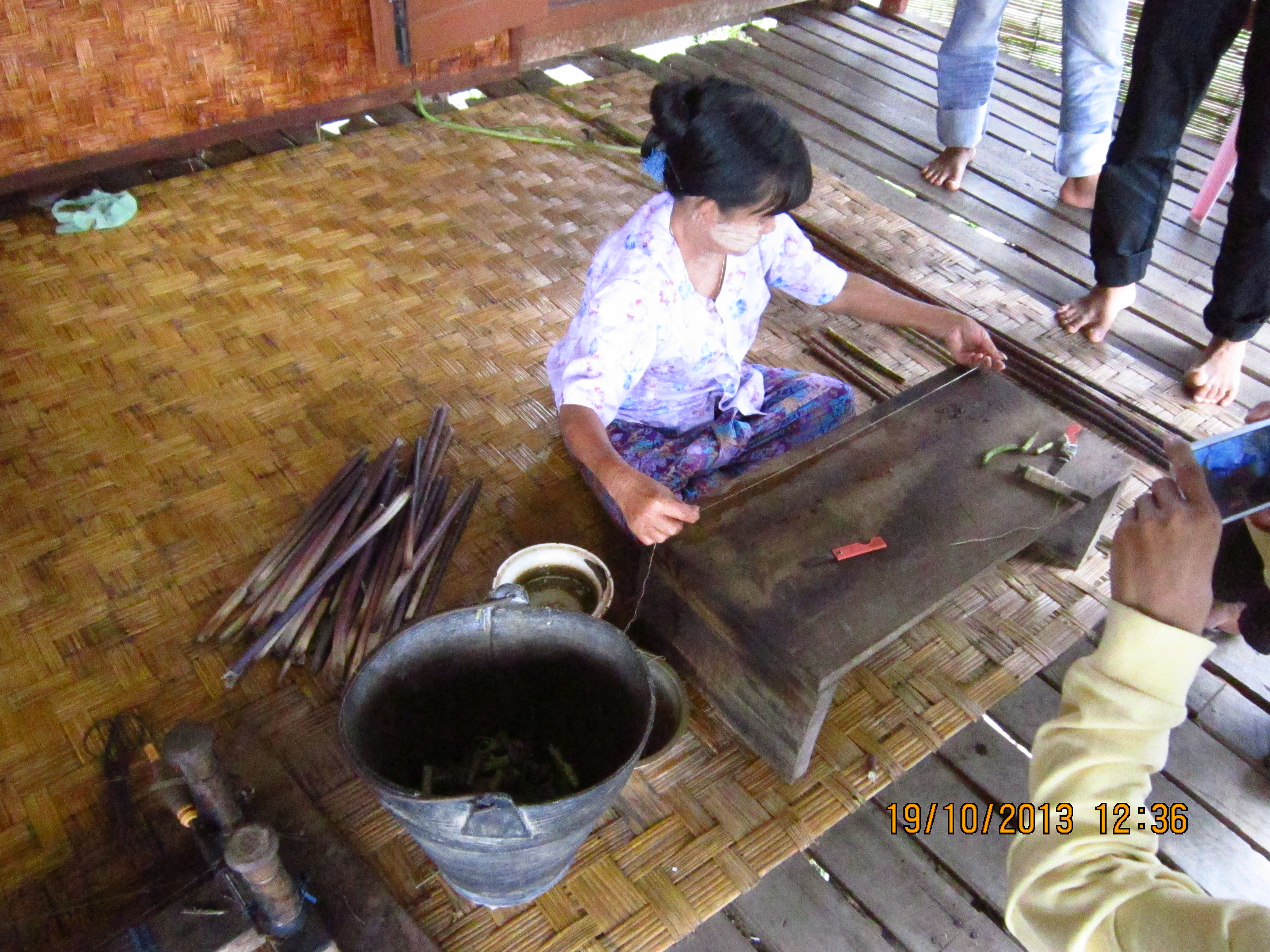 Inlay Traditional Hand Weaving using Lotus at Khit Sunn Yin Lotus, Silk & Cotton hand Weaving Center, Inlay, Shan State